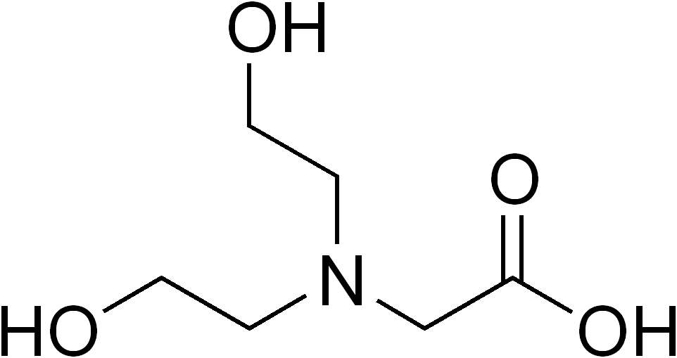 chemical structure of bicine (N,N-Bis(2-hydroxyethyl)glycine; Diethylolglycine; Diethanol glycine; Dihydroxyethylglycine)